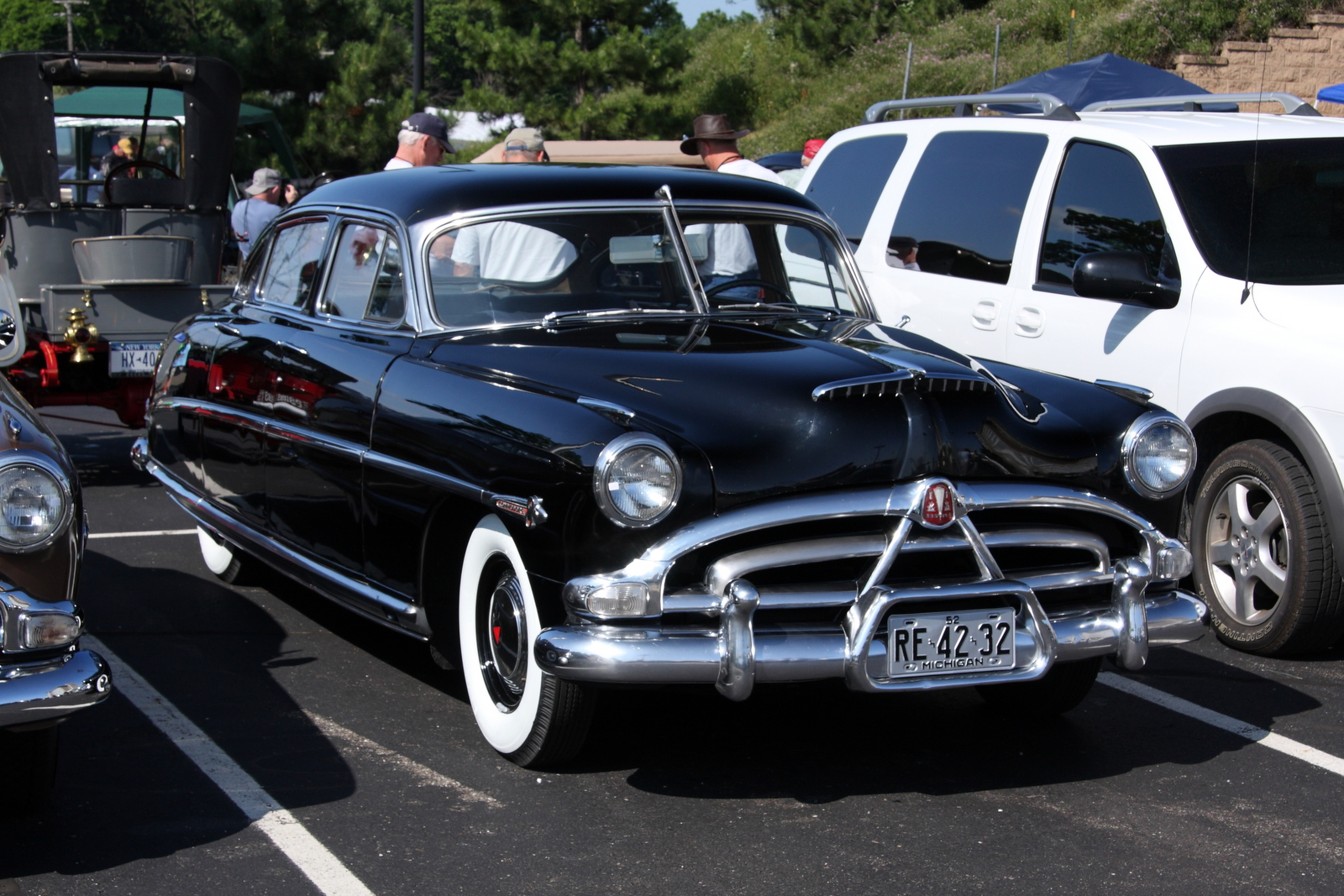 1952 Hudson Commodore 8.